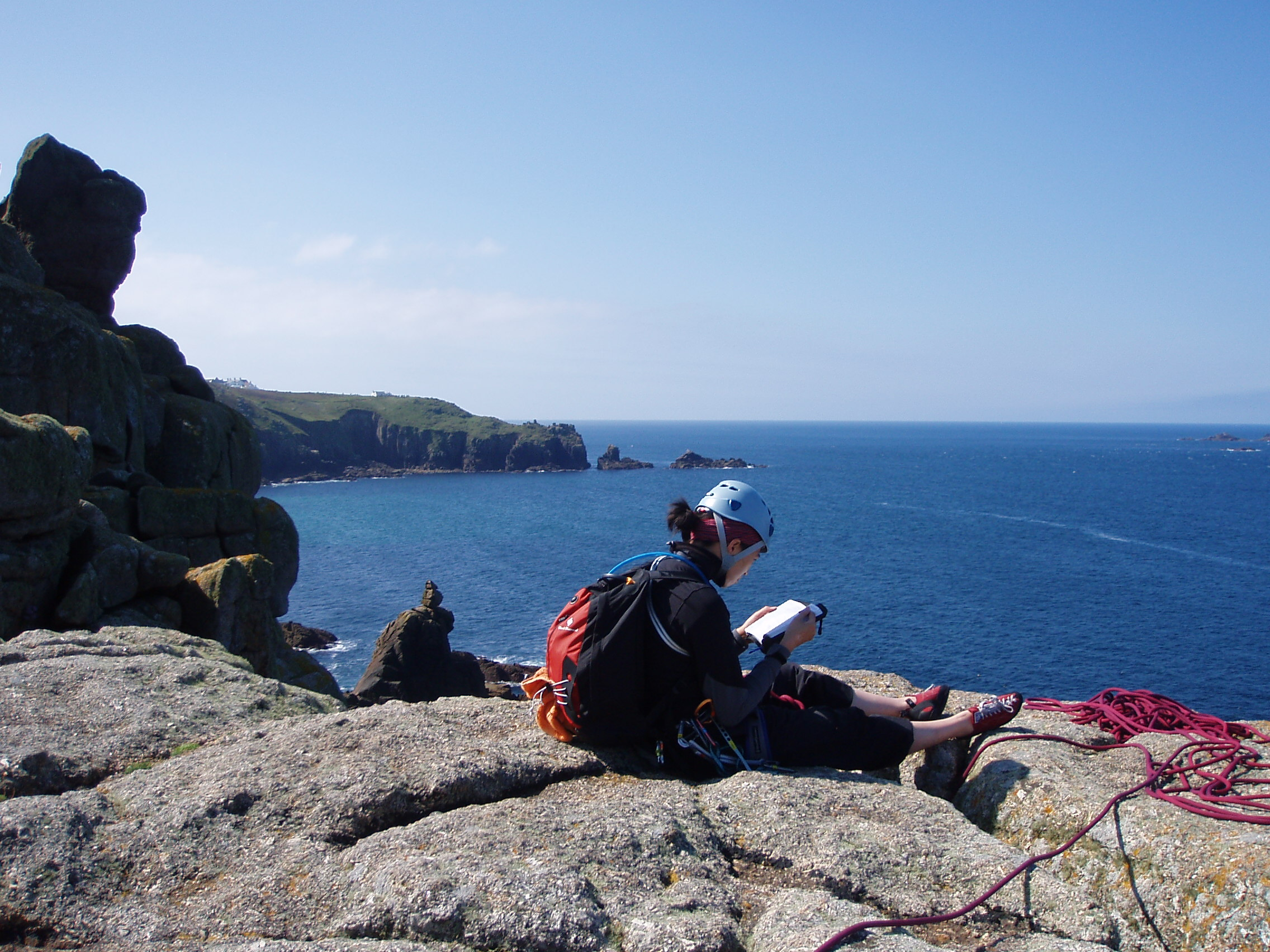 Consulting the guidebook - At Sennen Cove, with Lands End in the distance